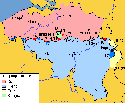 Map of Belgian municipalities with language facilities for speakers of the minority language. Version with English-language place names and legend.